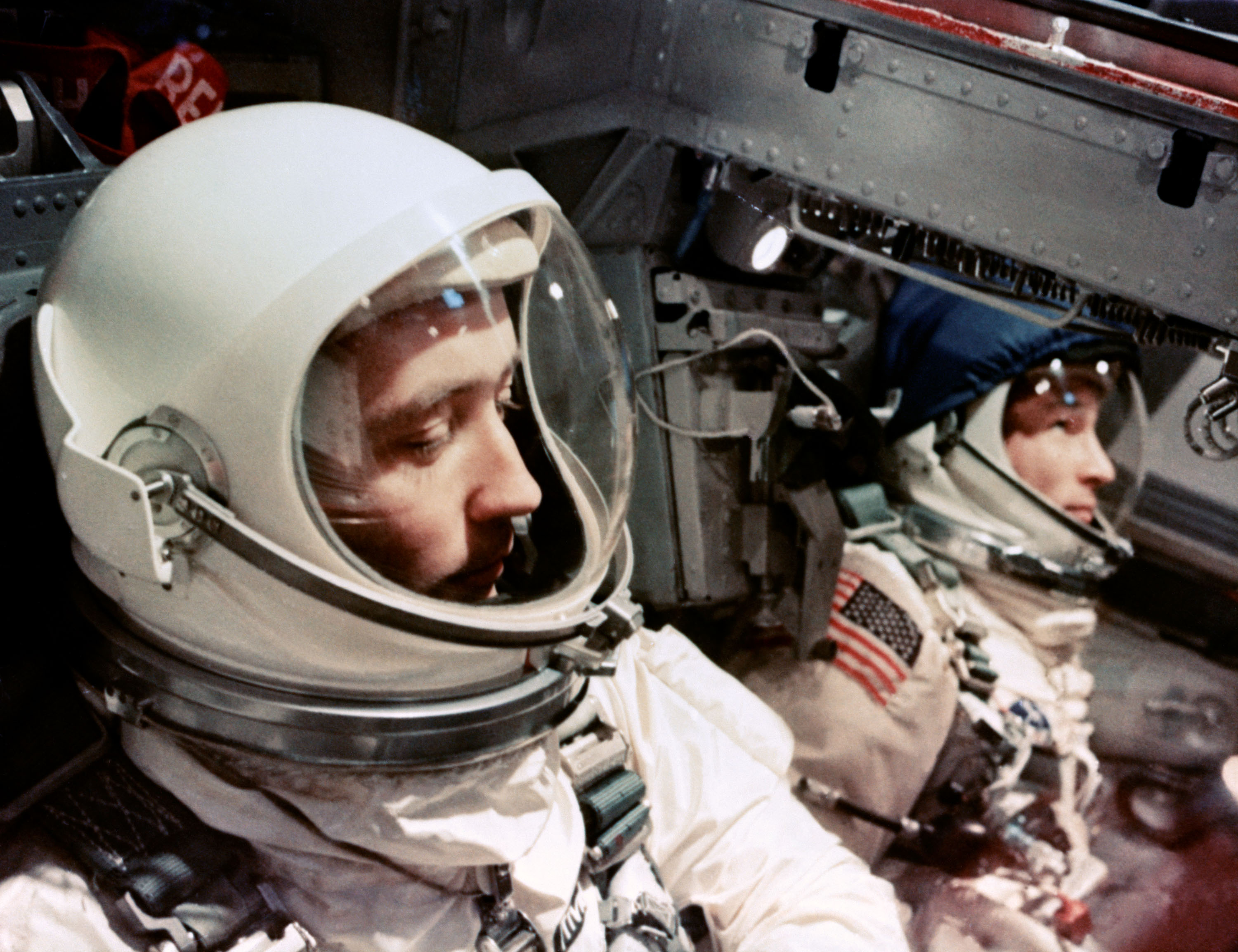 Astronauts Edward H. White II (left) and James A. McDivitt inside the Gemini IV spacecraft wait for liftoff. The objective of the Gemini IV mission was to evaluate and test the effects of four days in space on the crew, equipment and control systems. Pilot Edward White II successfully accomplished the first U.S. spacewalk during the Gemini IV mission.